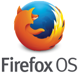 Vertical Firefox OS lockup